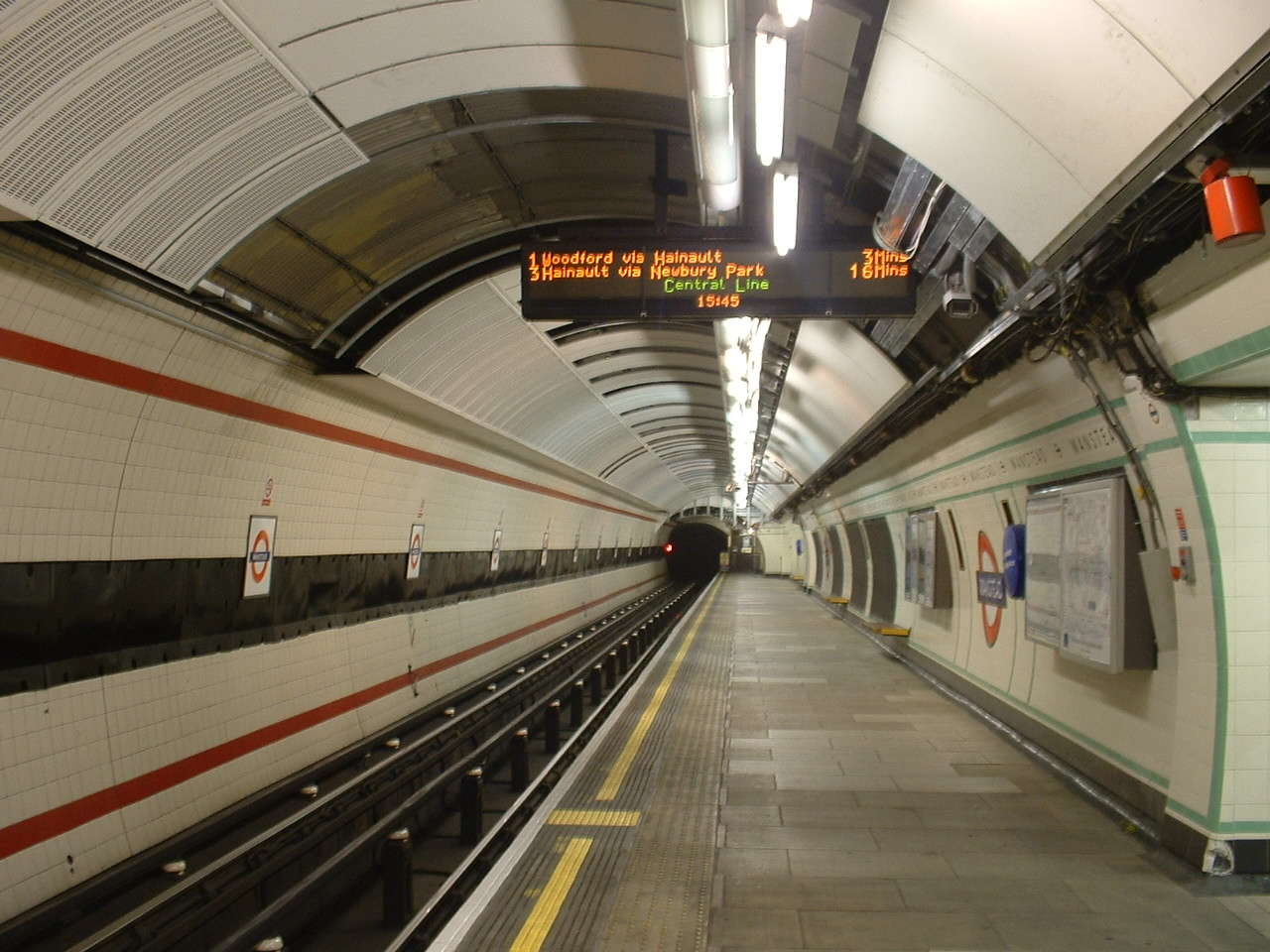 Wanstead tube station eastbound platform, showing nearly complete refurbishment. Sunil060902, 4th November 2007.